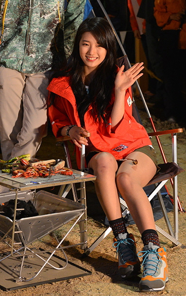 Bae Suzy at Bean Pole Outdoor Glamping Festival